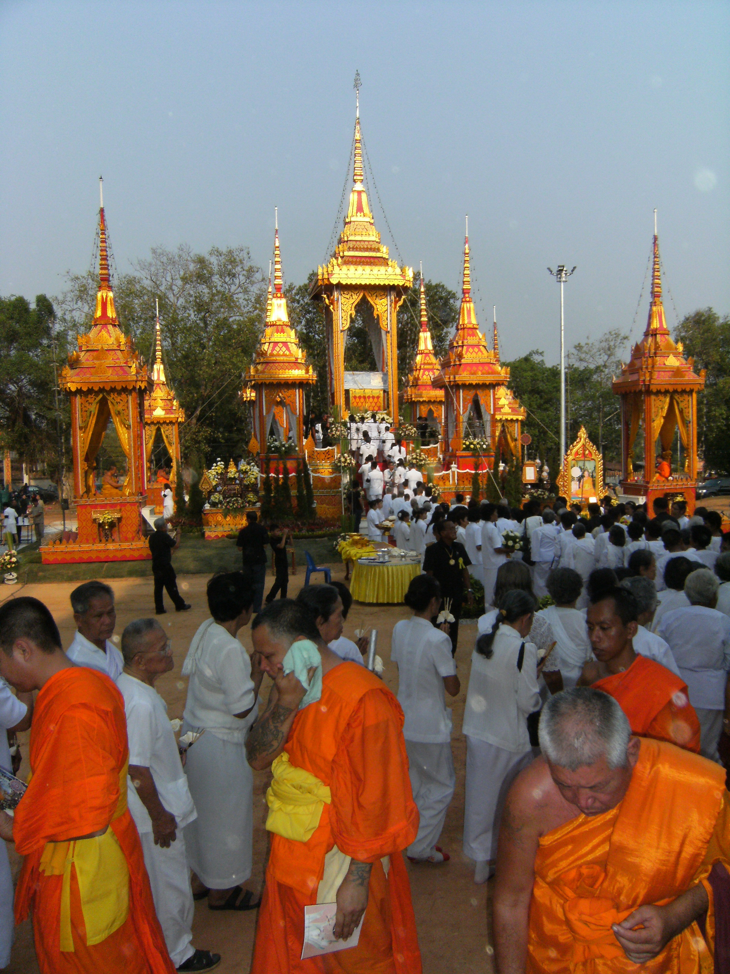 crematorium temporary for Buddhist priest cremation in Wat Kasemjittaram, Ban Khung Taphao Uttaradit Province, Thailand.)